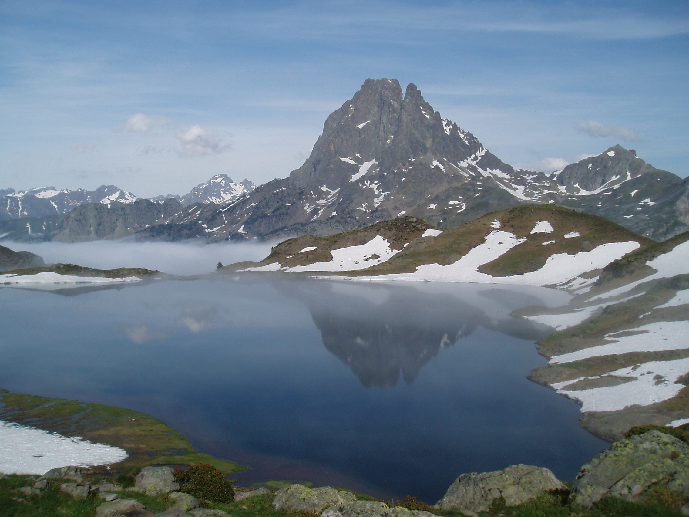 The Pic du Midi d'Ossau in the French Pyrenees. Photograph taken by Ian Grant, June 2005.